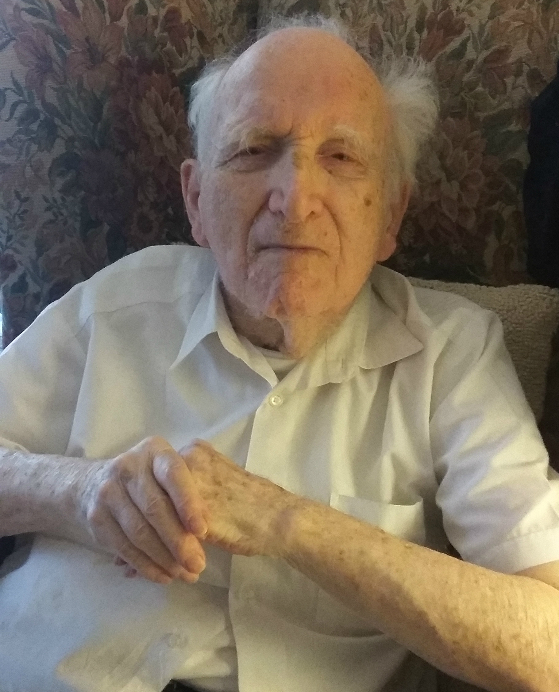 Photograph of scientist and SF author Larry Eisenberg (age 96).